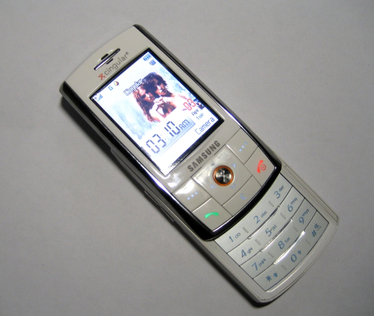 My Cingular Wireless Samsung SGH-D807 mobile phone with t.A.T.u wallpaper.